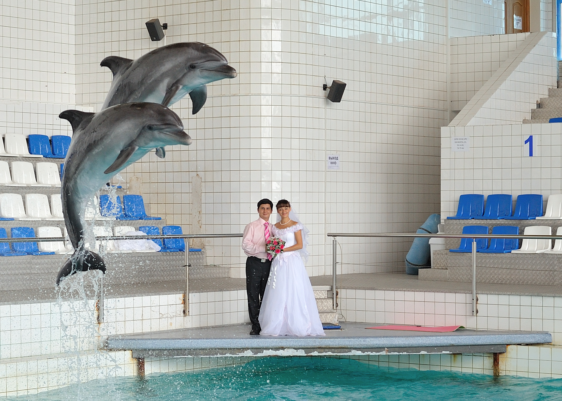 Wedding at the Dolphinarium